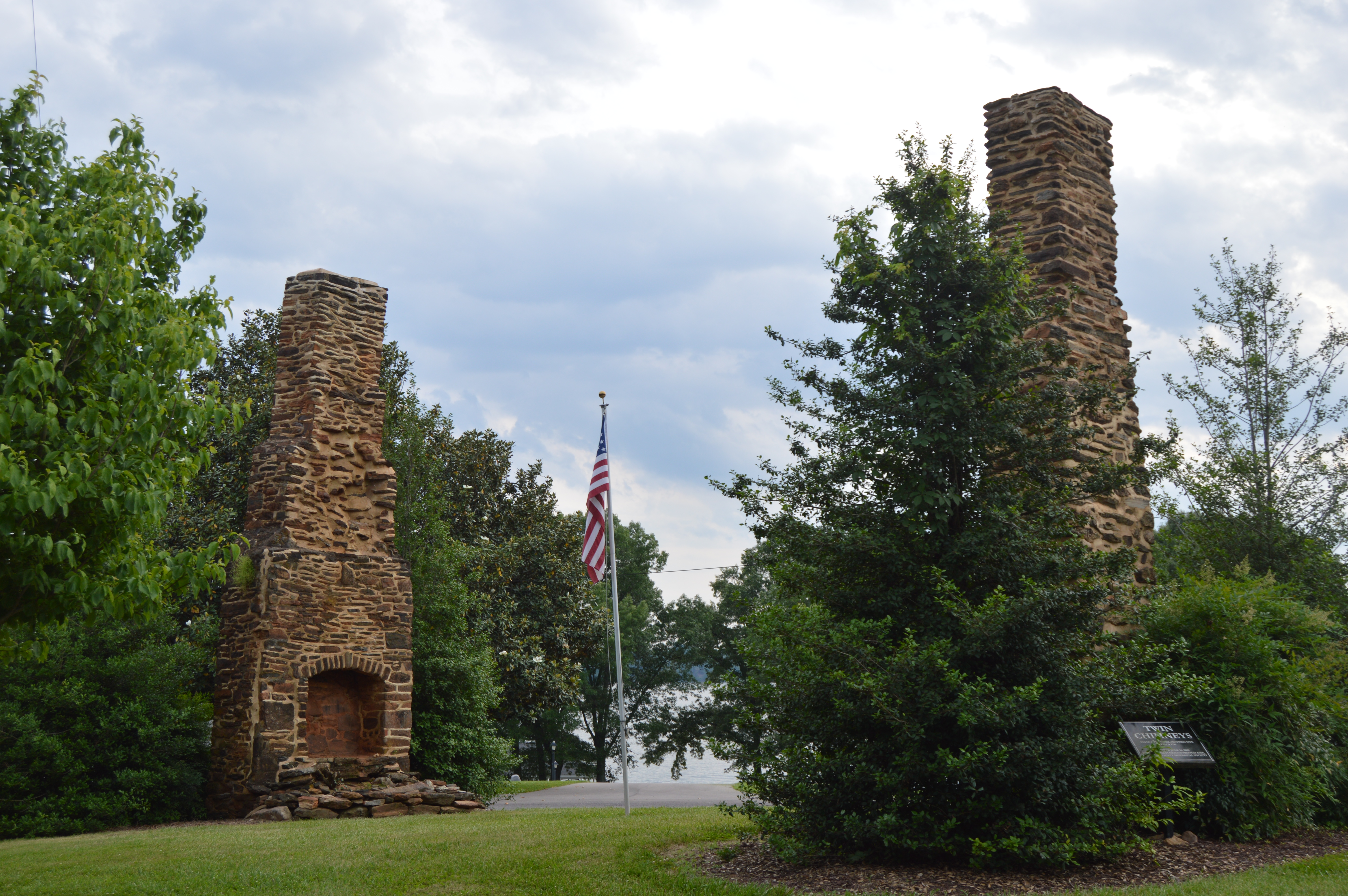 Overview from the north of the site of the Gwin Dudley House, located on the edge of Smith Mountain Lake in Franklin County, Virginia, United States. Built in 1795 and burned shortly after 1900, it is listed on the National Register of Historic Places.